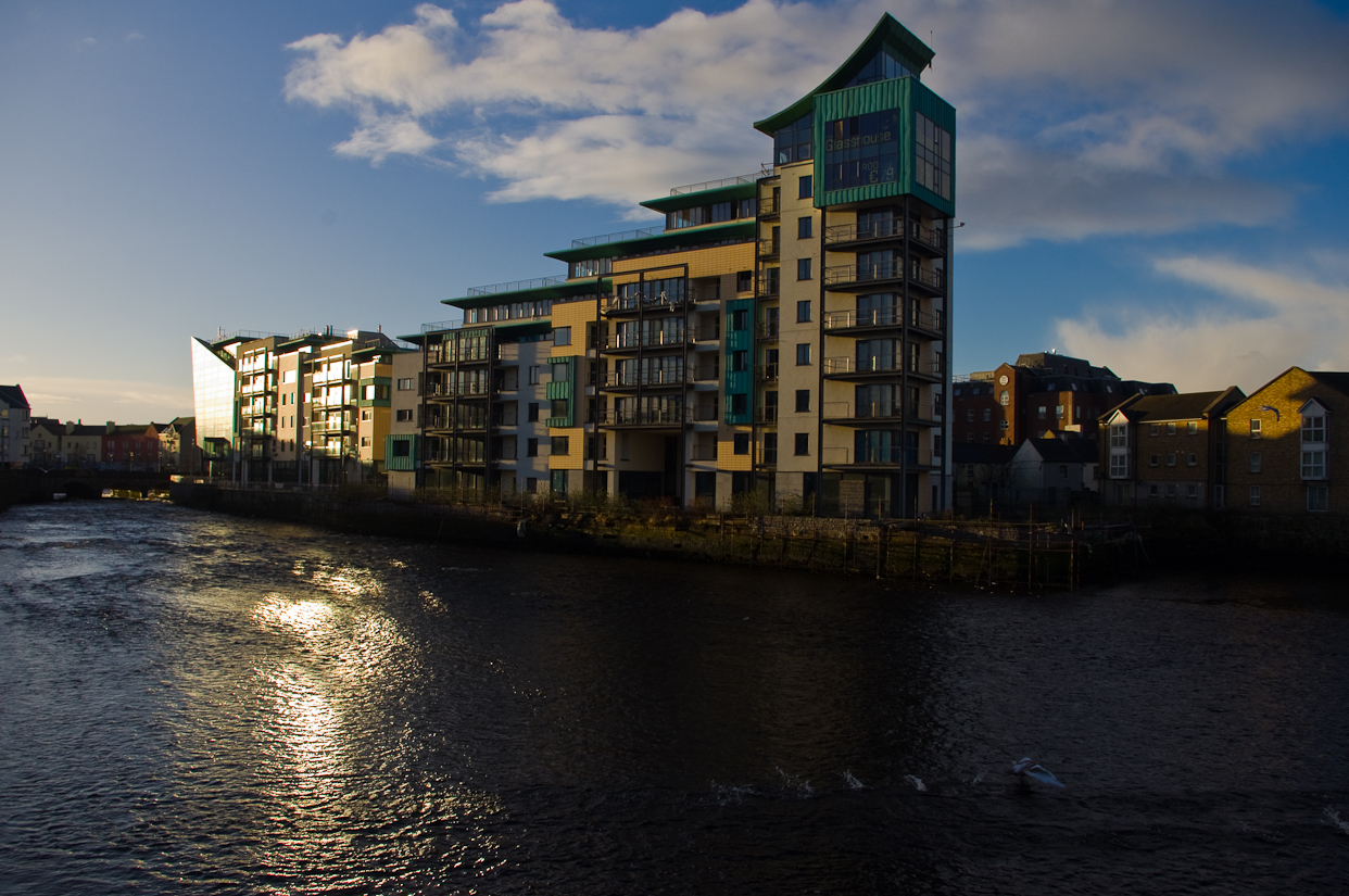 sunrise, Garavogue river, Sligo